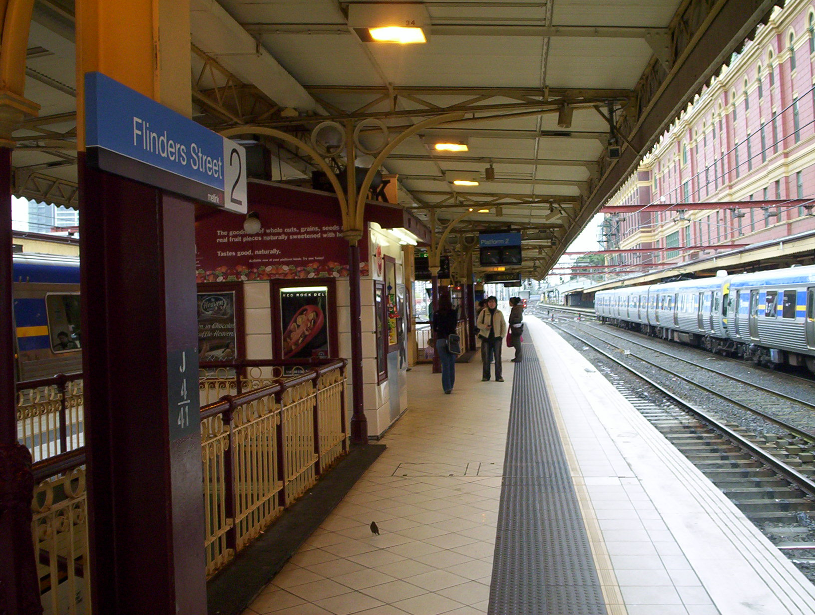 Flinders st station platform, Melbourne, Australia.